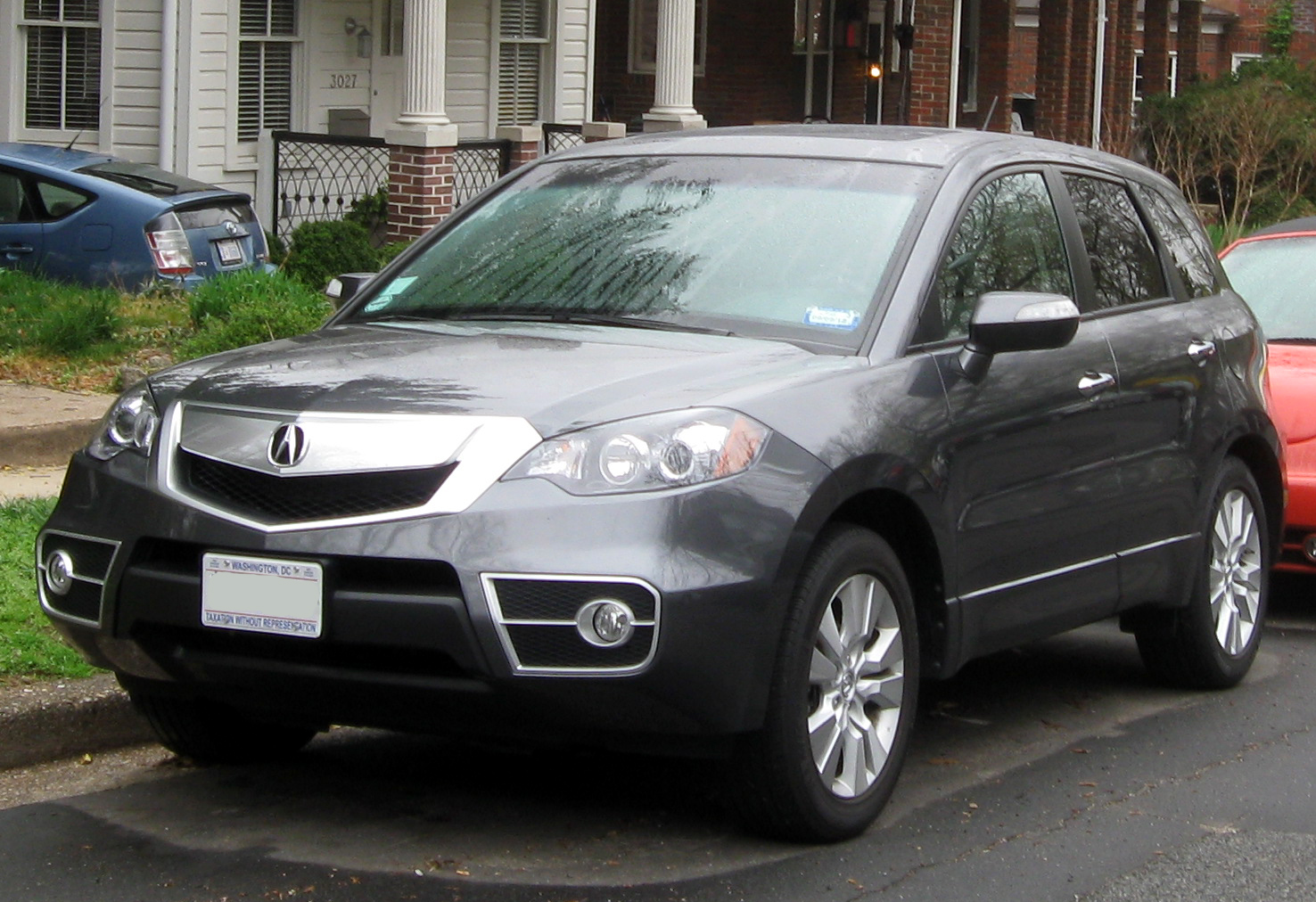 2010-2012 Acura RDX photographed in Washington, D.C., USA.